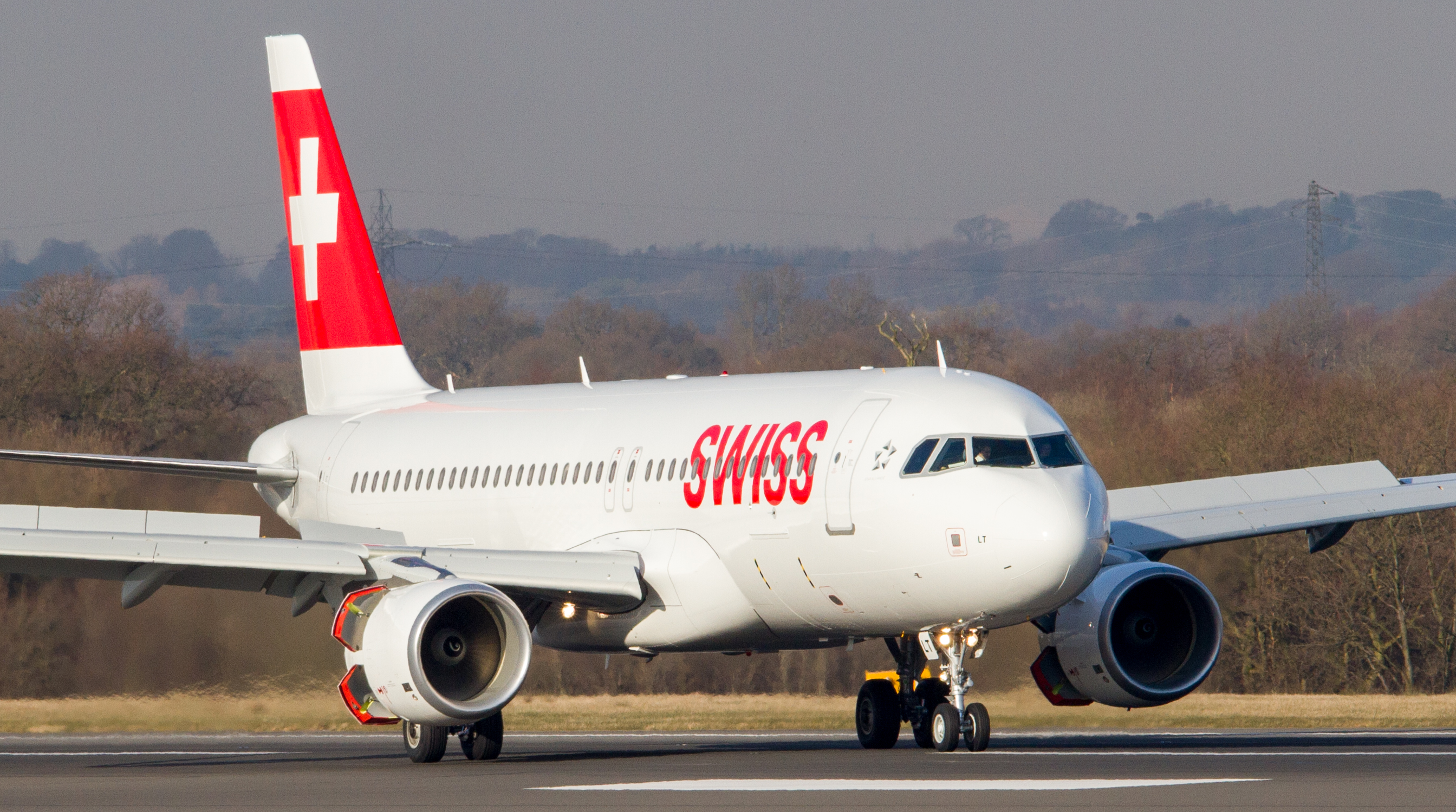 Reverse thrusters deployed